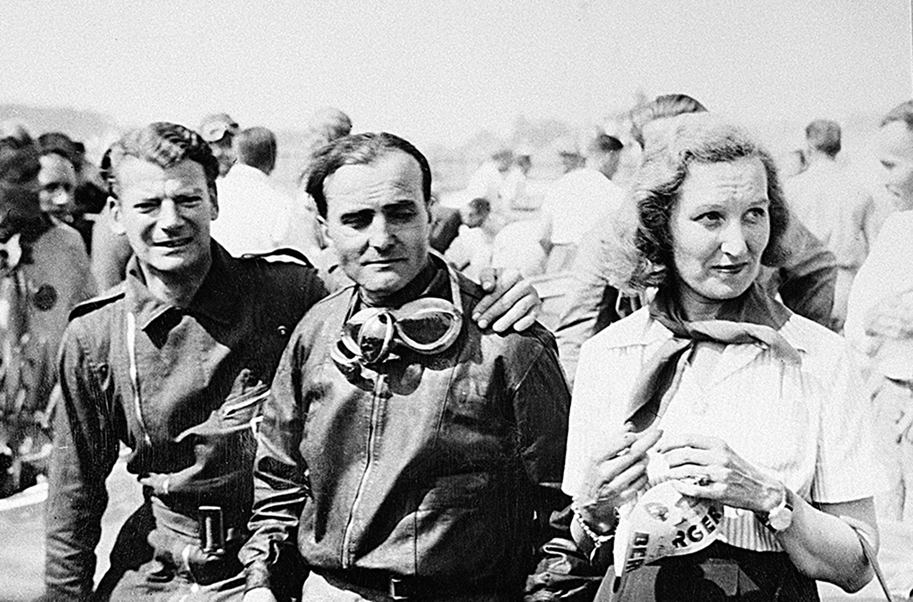 Peter Mitchell-Thomson, 2nd Baron Selsdon (left) and Luigi Chinetti (middle) won 1949 Le Mans. Marion Chinetti at right (they had married in 1942, and were still married in 1949).[1]